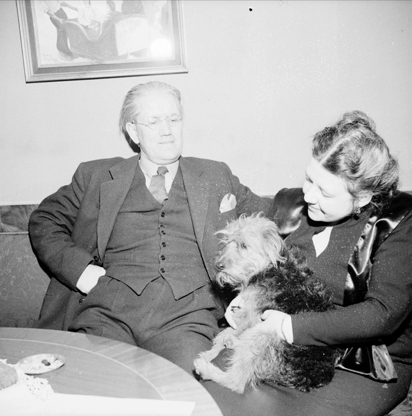 Swedish professor and translator Björn Collinder (1894-1983) and his wife, the Swedish vocalist Britta Norrby-Collinder (1904-1992)